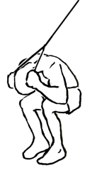 an exercise of abs